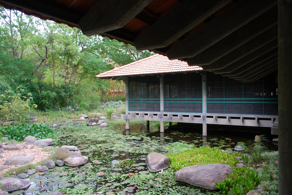 Afsana Guesthouse, Auroville